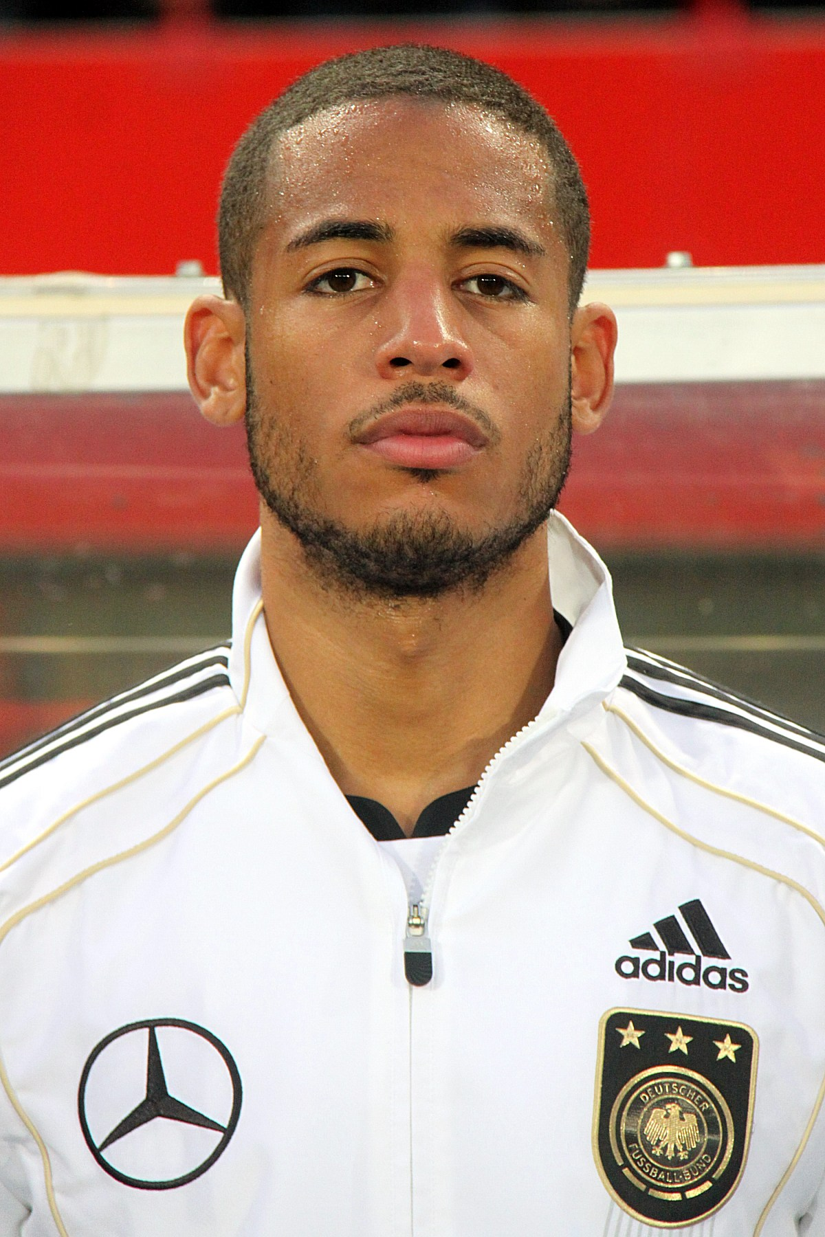 Dennis Aogo (Hamburger SV), german national football team - Google Maps - Google Earth